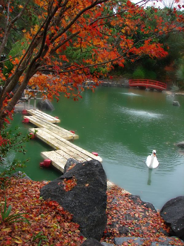 I had to get out of the house today so while it was dry I popped down to Auburn Botanical Gardens and had a walk and took some pictures. This is the Japanese Garden. The water is a toxic green colour at the moment as they have put something in it to treat the algae.